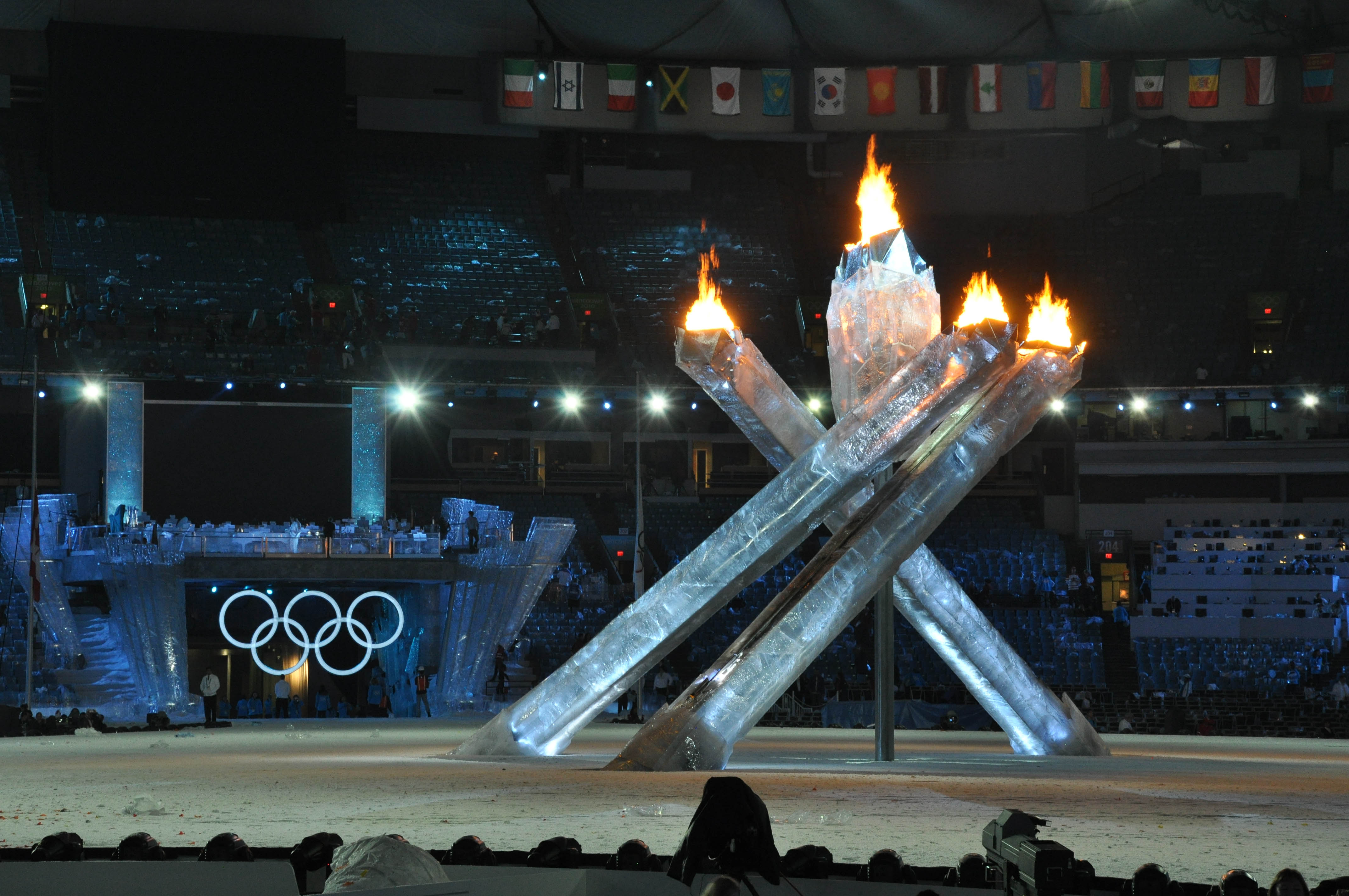 Opening Ceremonies (131 of 133)